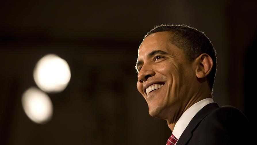 President Barack Obama addresses the House Democratic Caucus Issues Conference in Williamsburg, Virginia.